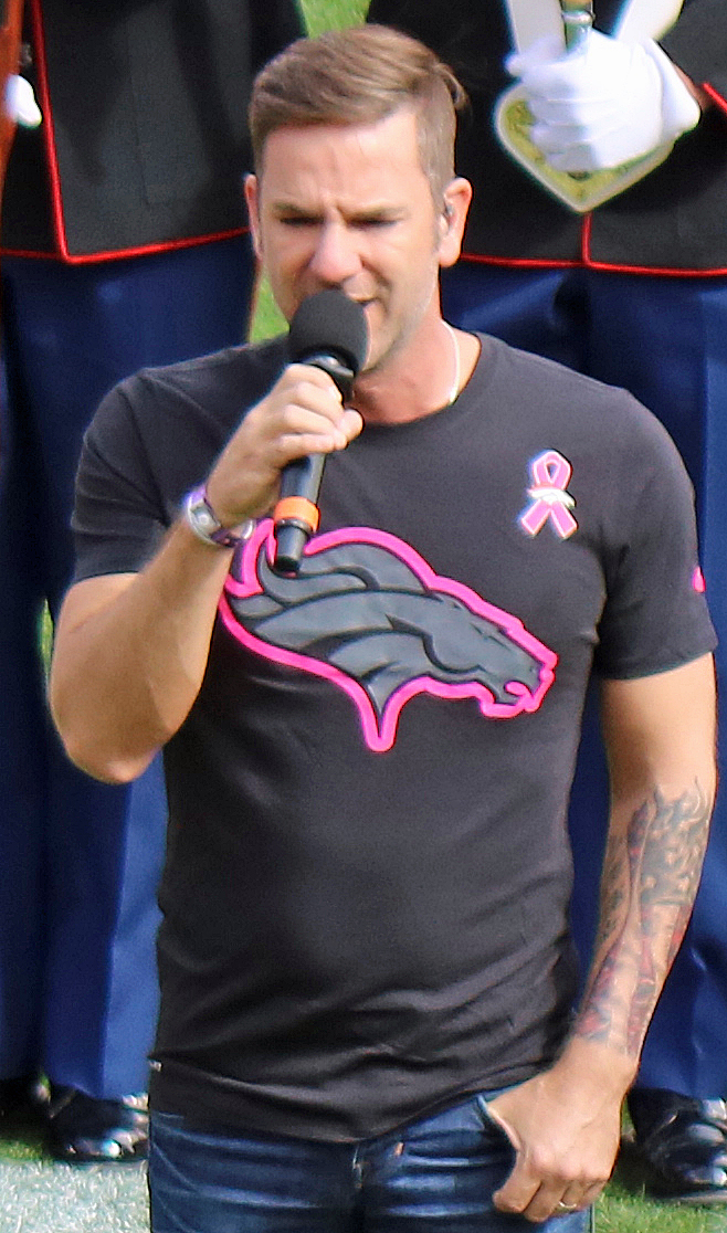 Craig Campbell, a country music recording artist. Here he is singing The Star Spangled Banner before the start of an NFL football game between the Denver Broncos and the Atlanta Falcons in Denver, Colorado on October 9, 2016.